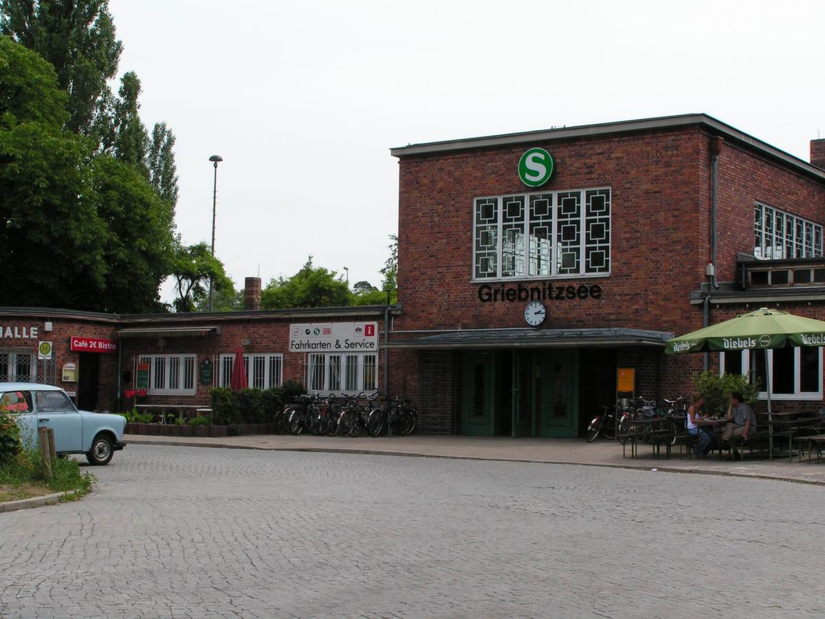 Entrance building of the Berlin S-Bahn station (Potsdam-)Griebnitzsee